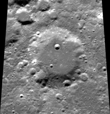 Nöther lunar crater - Clementine image